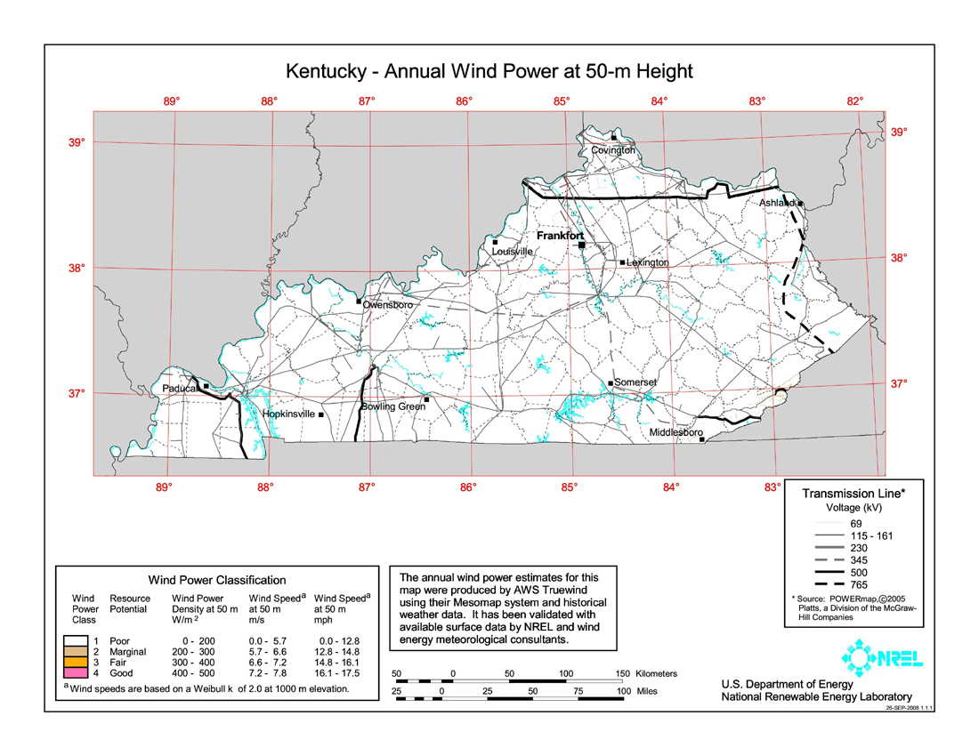 Average annual wind power distribution for Kentucky, 50m height above ground, also showing location of existing electrical transmission lines